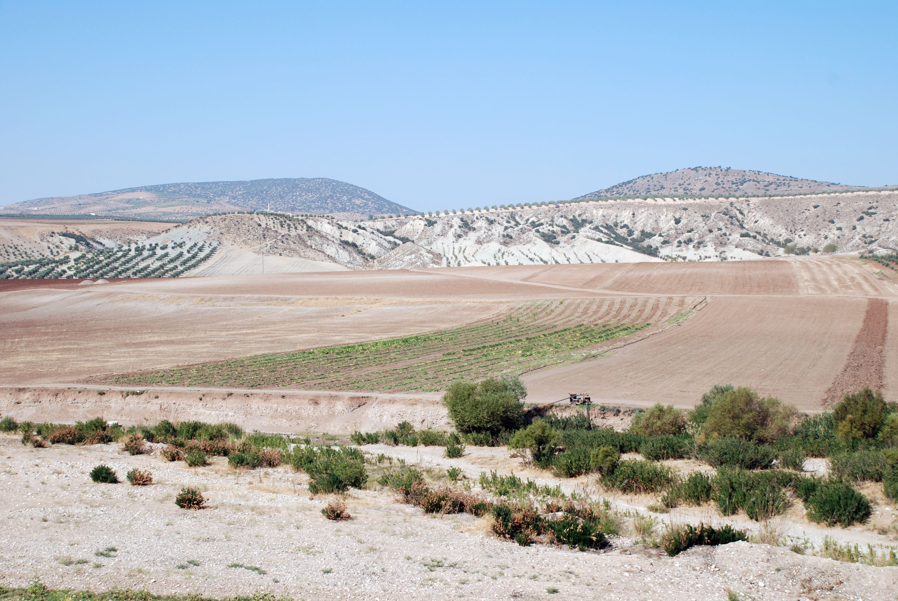 Afrin region, Syria, near Nebi Huri (Cyrrhus)